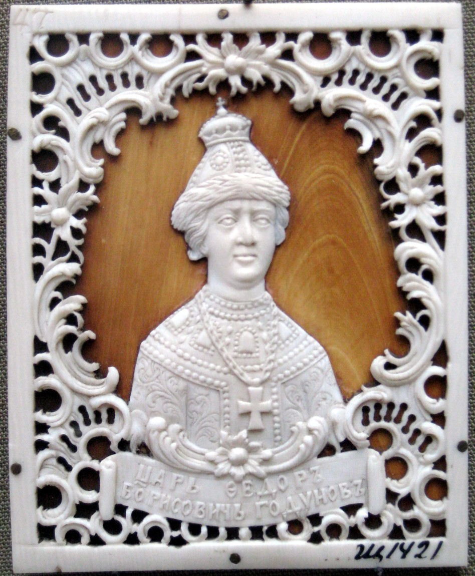 Portraits from serie "Genealogy of russian great princes and tsars, 1750-1775s, bone. Fyodor II Godunov